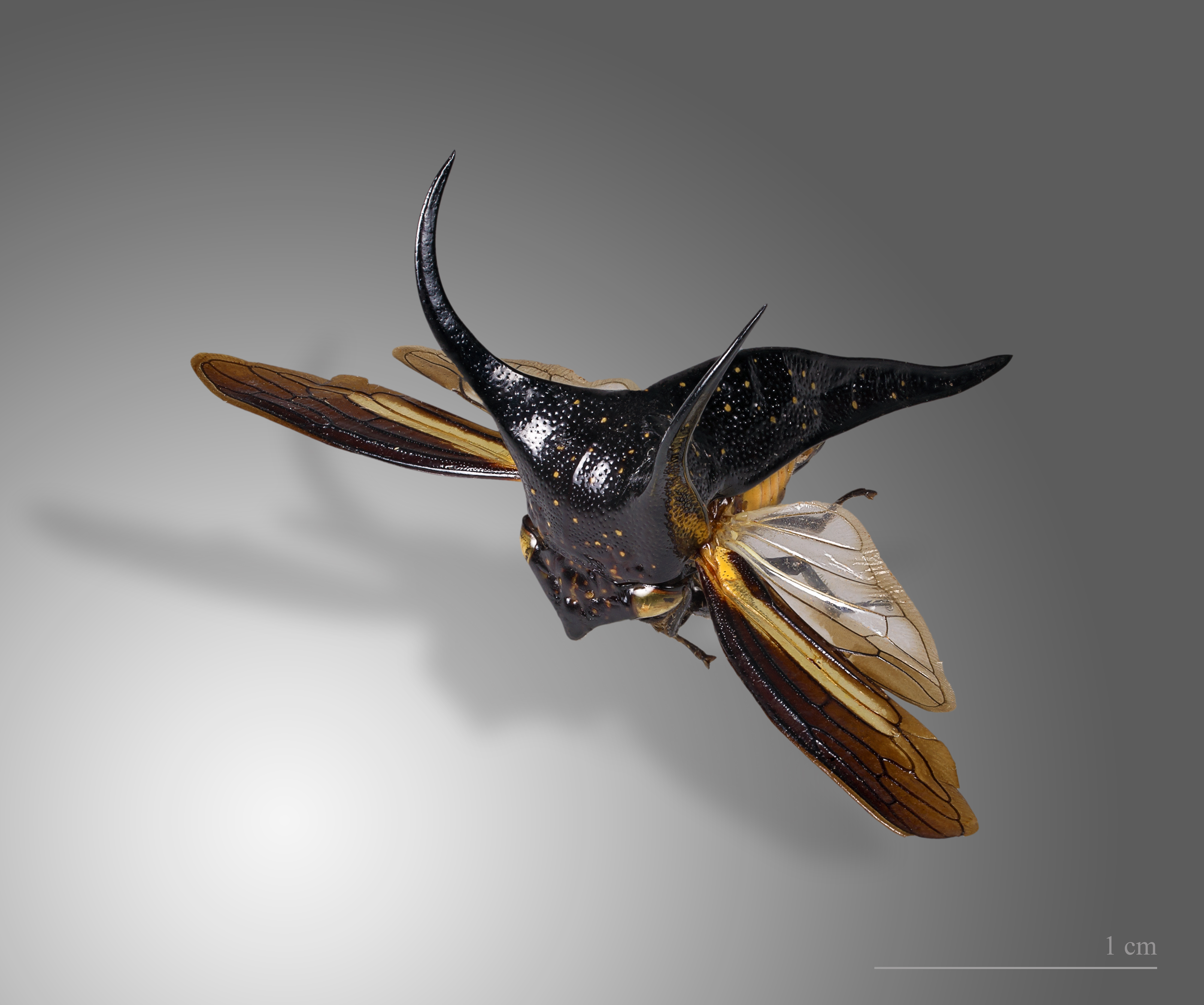 Hemikyptha marginata Locality : Montsinéry, French Guiana